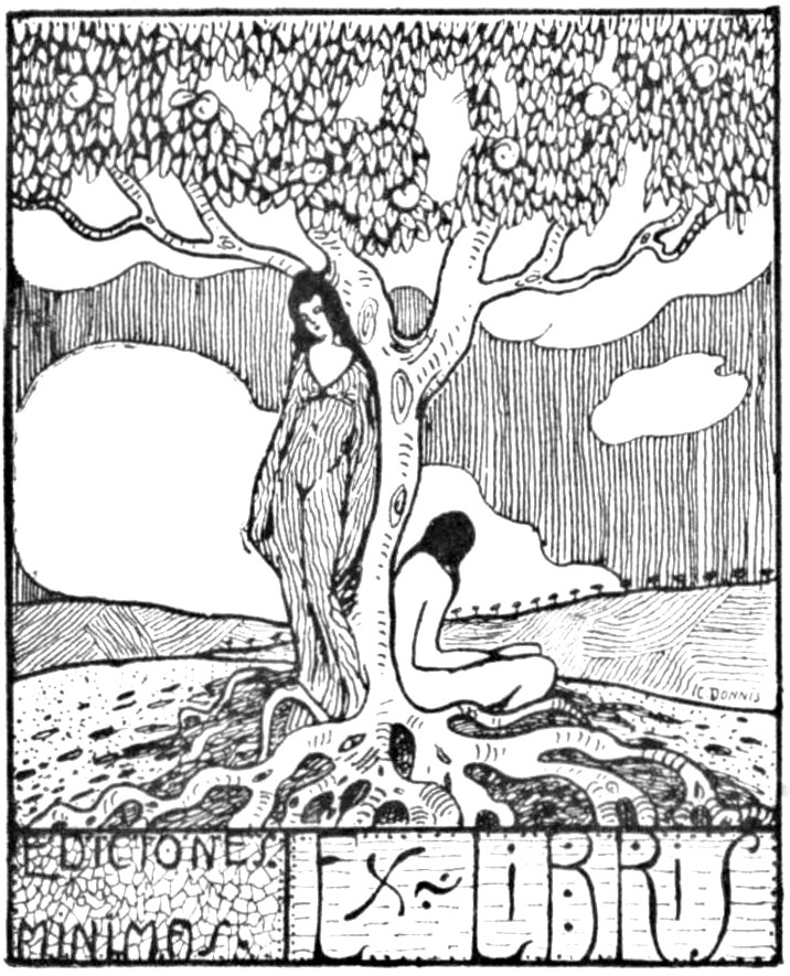 pg 32 of Cuentos.